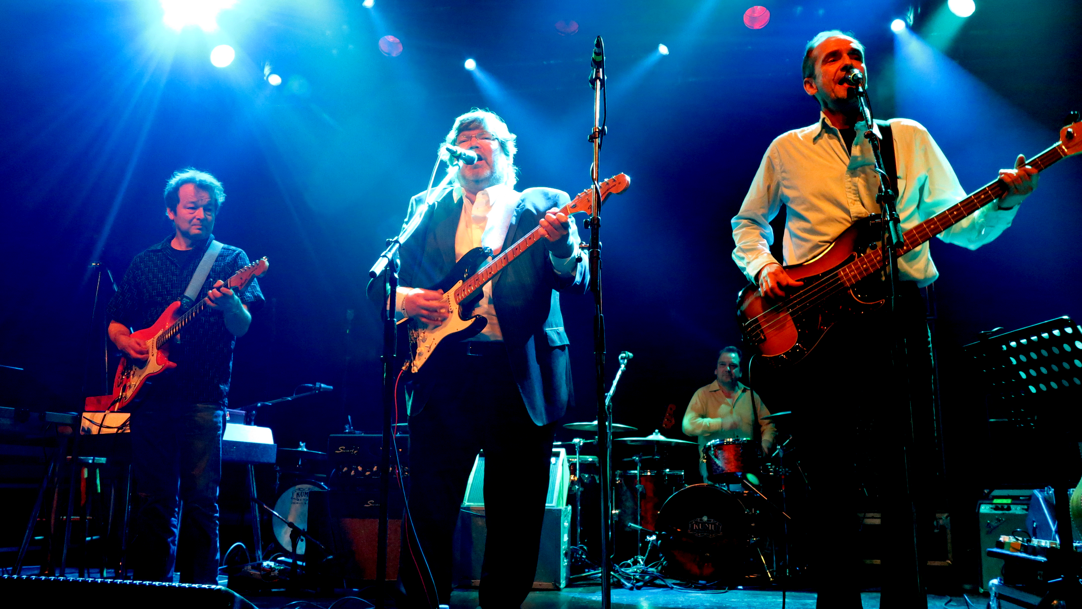 The Bablers performing in 2014 in a one-off appearance at the Tavastia Club, Helsinki.